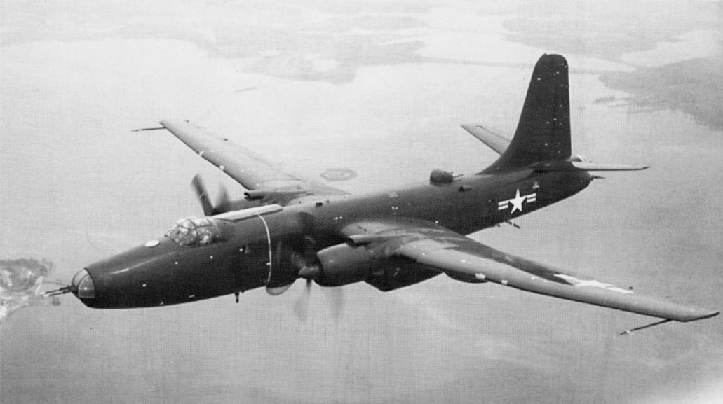 The first production Martin P4M-1 Mercator patrol plane (BuNo 121451) in flight in 1949.